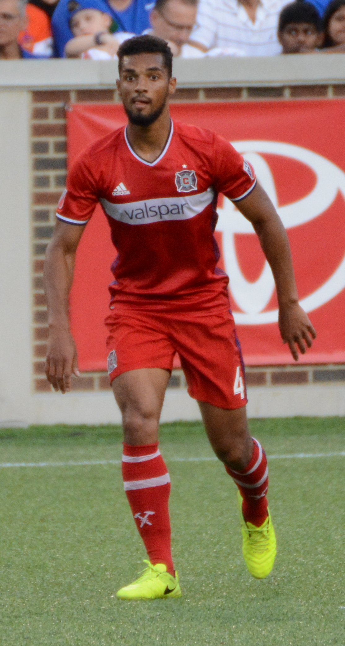 Taken at a U.S. Open Cup match between FC Cincinnati and Chicago Fire SC at Nippert Stadium in Cincinnati, Ohio on June 28, 2017.